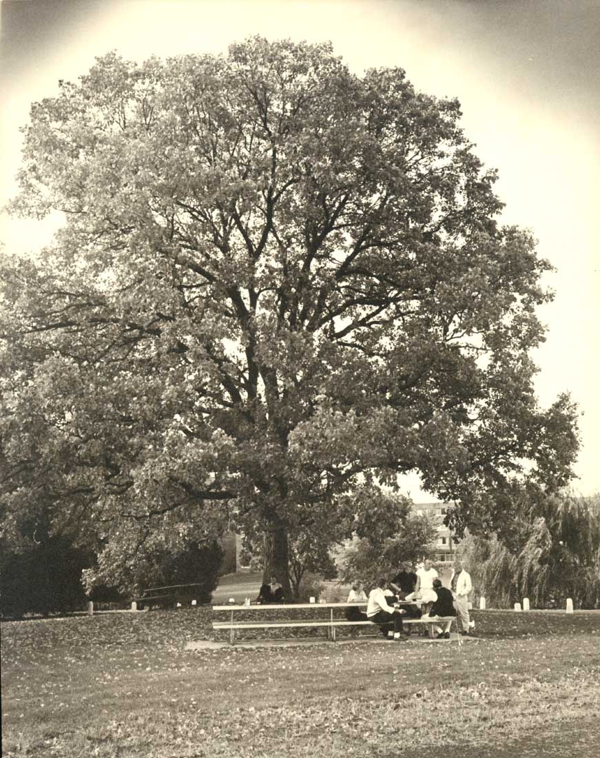 Image of the Council Oak found at the UW-Eau Claire Campus